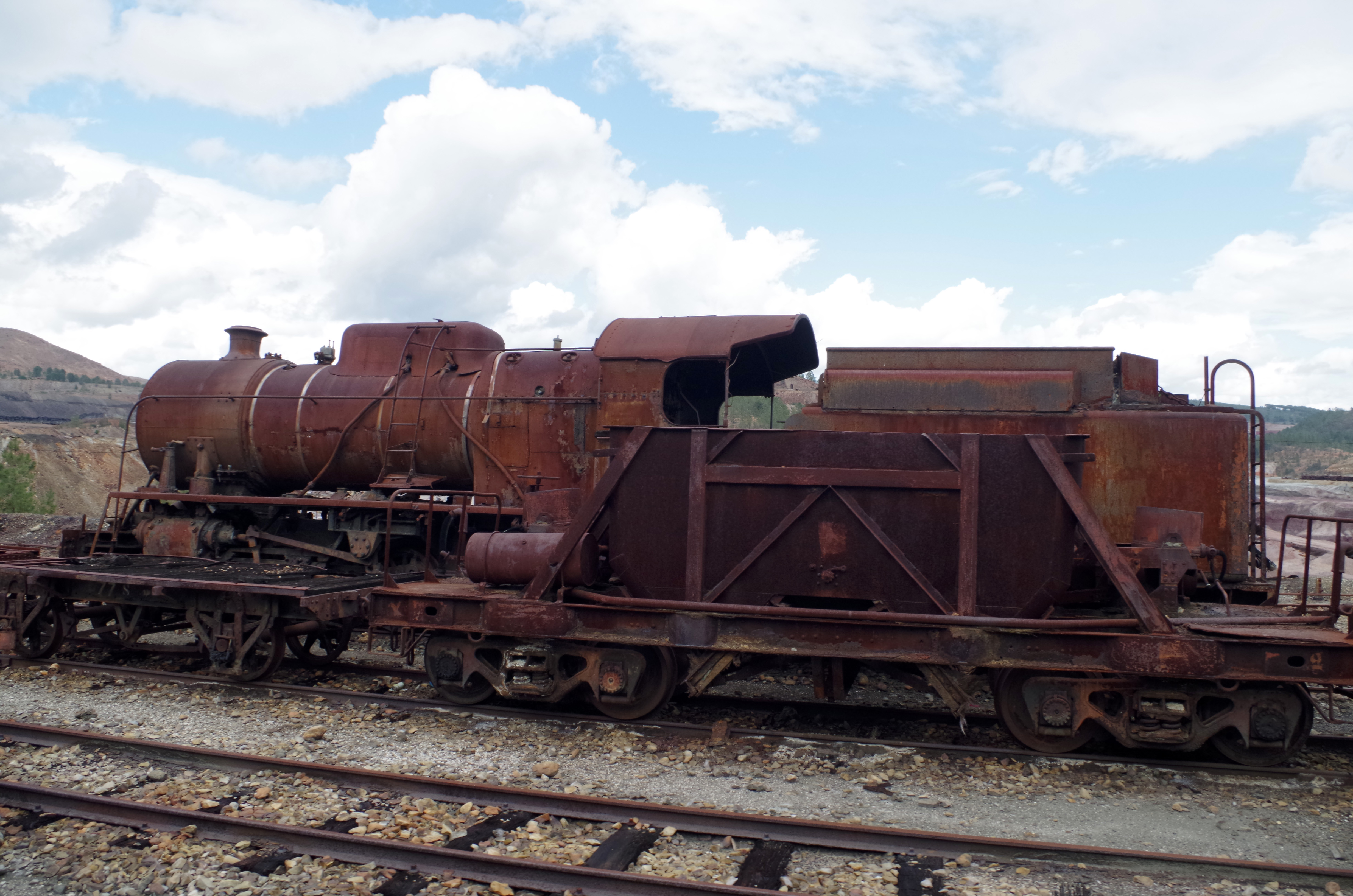 Old locomotive in Minas de Riotinto. (Huelva, Spain).